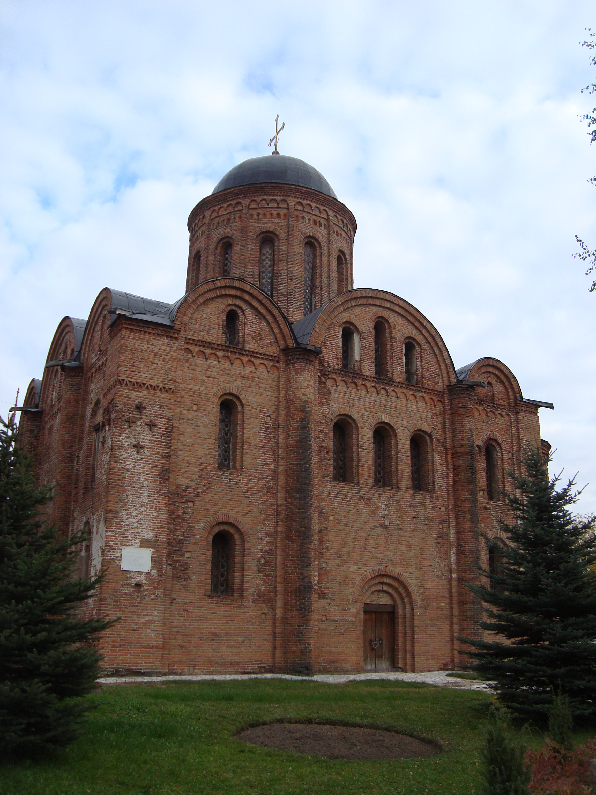 Church_Peter_Pavel_Smolensk